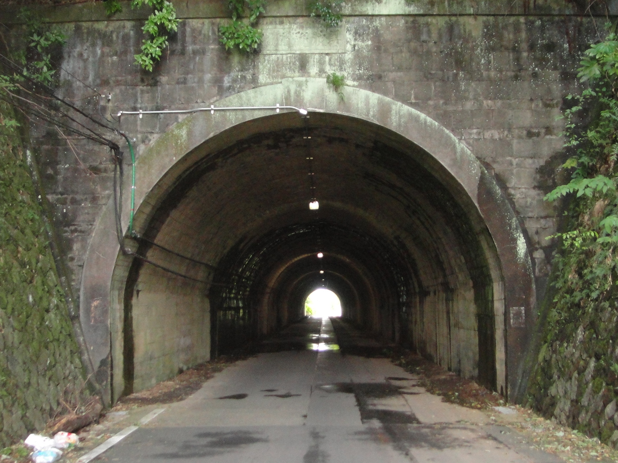 Zenba-tunnel in Isehara, Kanagawa